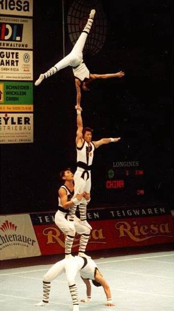 Men's Four one arm